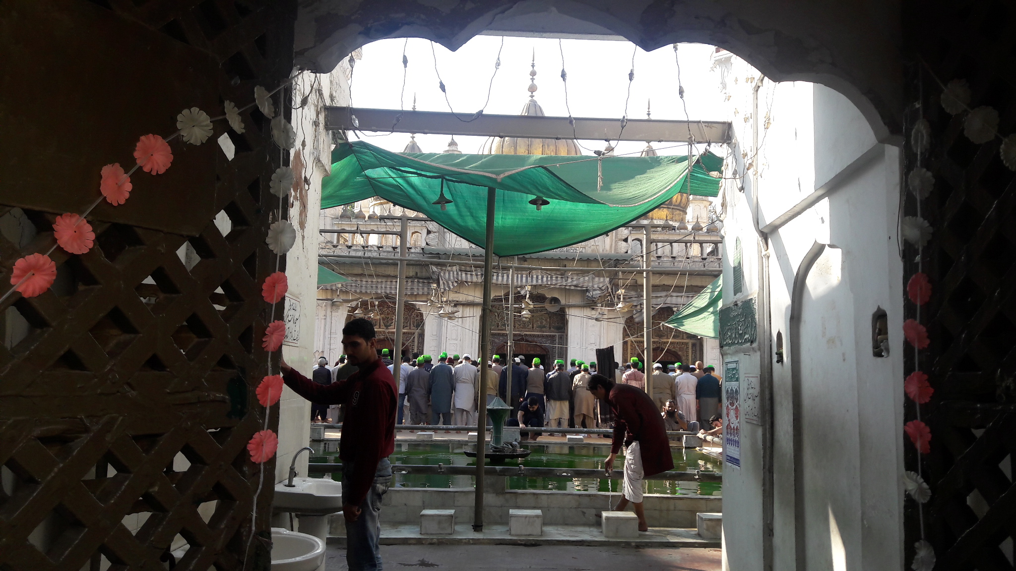 Sunehri Masjid, Lahore